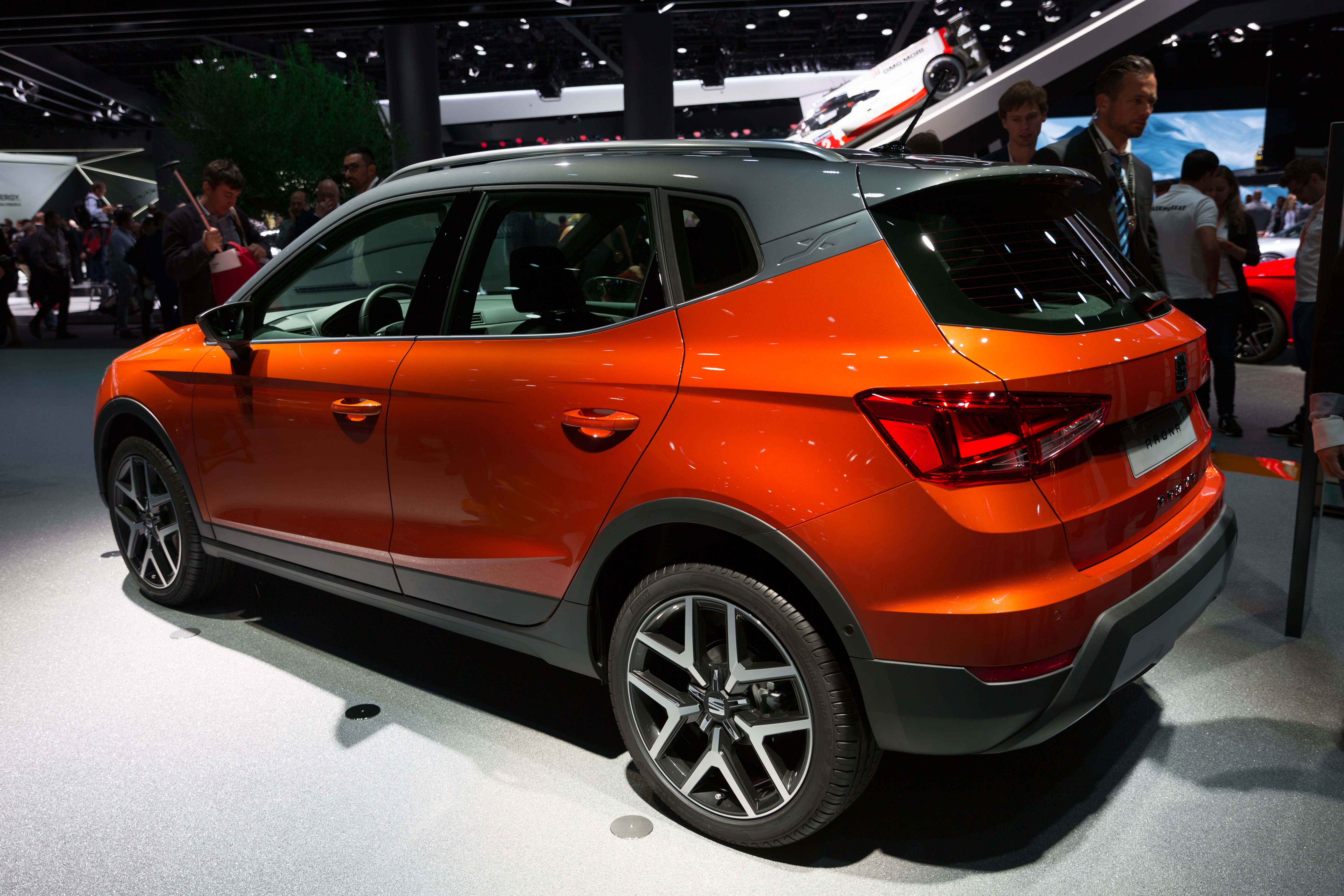 Seat Arona